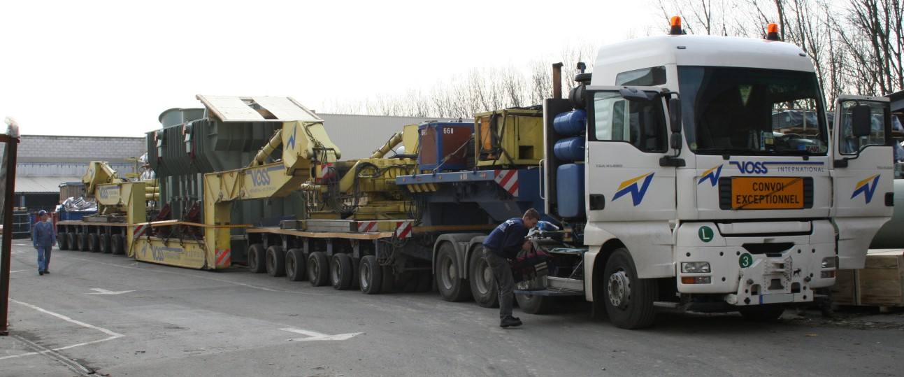 Transportation of a 110MVA 400/76kV power transformer.